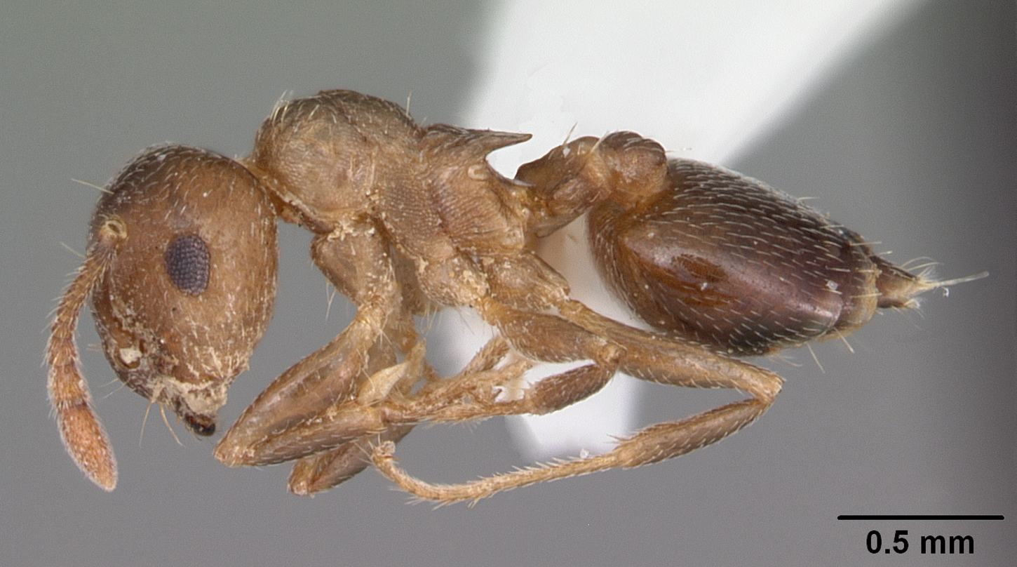 Profile view of ant Crematogaster cerasi specimen casent0103776.